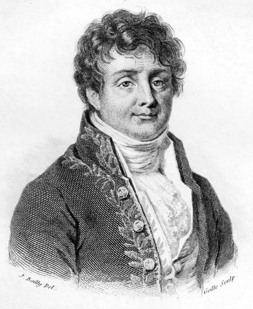 Joseph Fourier (1768-1830)